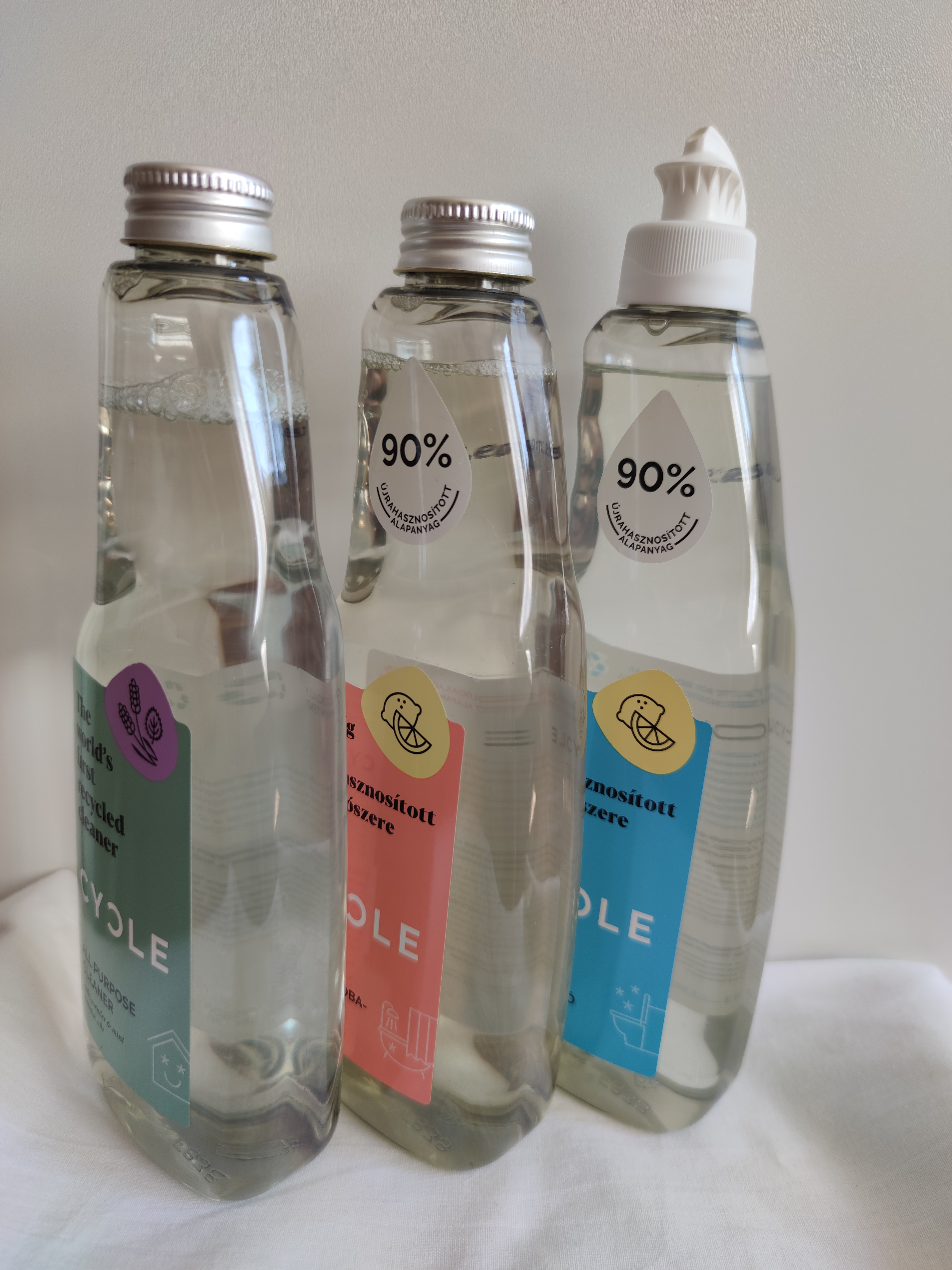 Cycle products